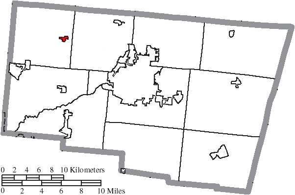 Map of the municipal and township boundaries of Clark County, Ohio, United States, as of the 2000 census, with the location of the village of North Hampton highlighted. Township borders are shown only in unincorporated areas in order to differentiate incorporated and unincorporated areas more clearly.